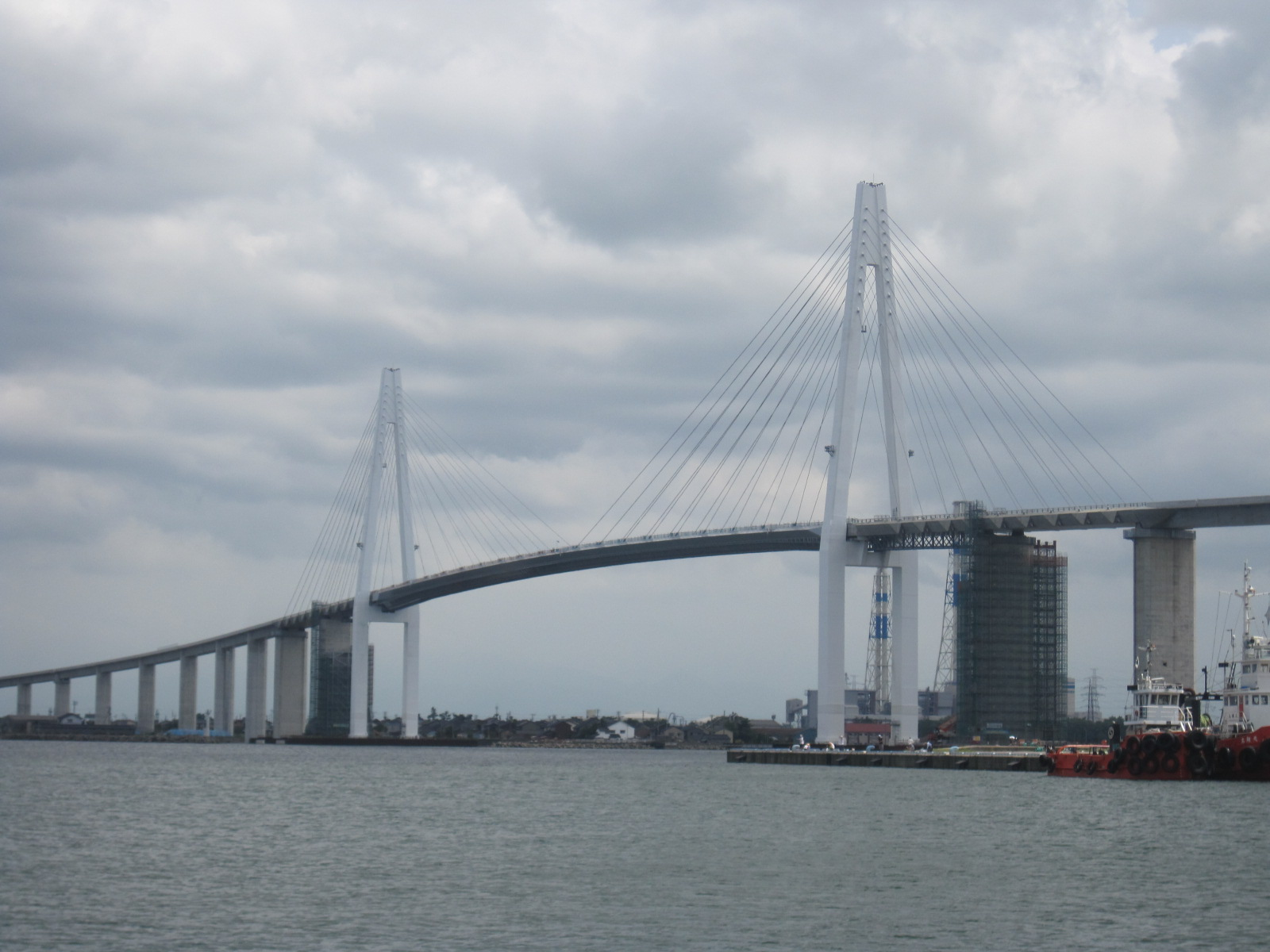 Shinminato Bridge (Imizu city, Toyama prefecture)